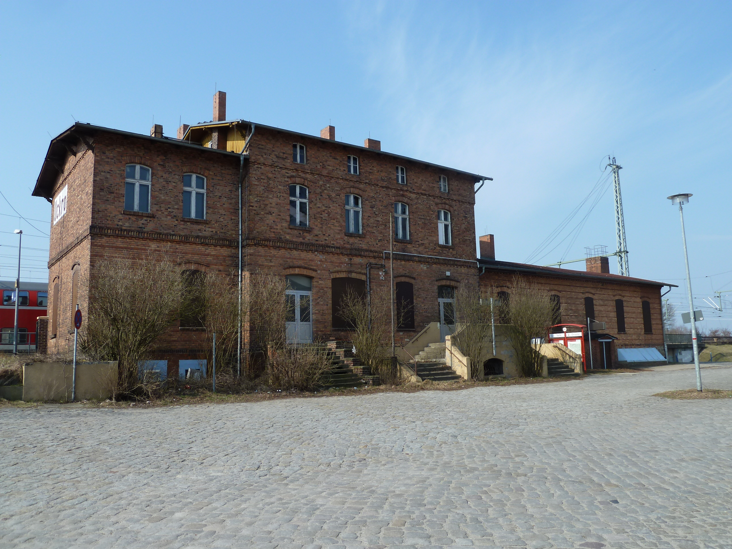 Train station Uckro (today Luckau-Uckro), station building of the Berlin-Dresdener Eisenbahn, cultural heritage, view from road